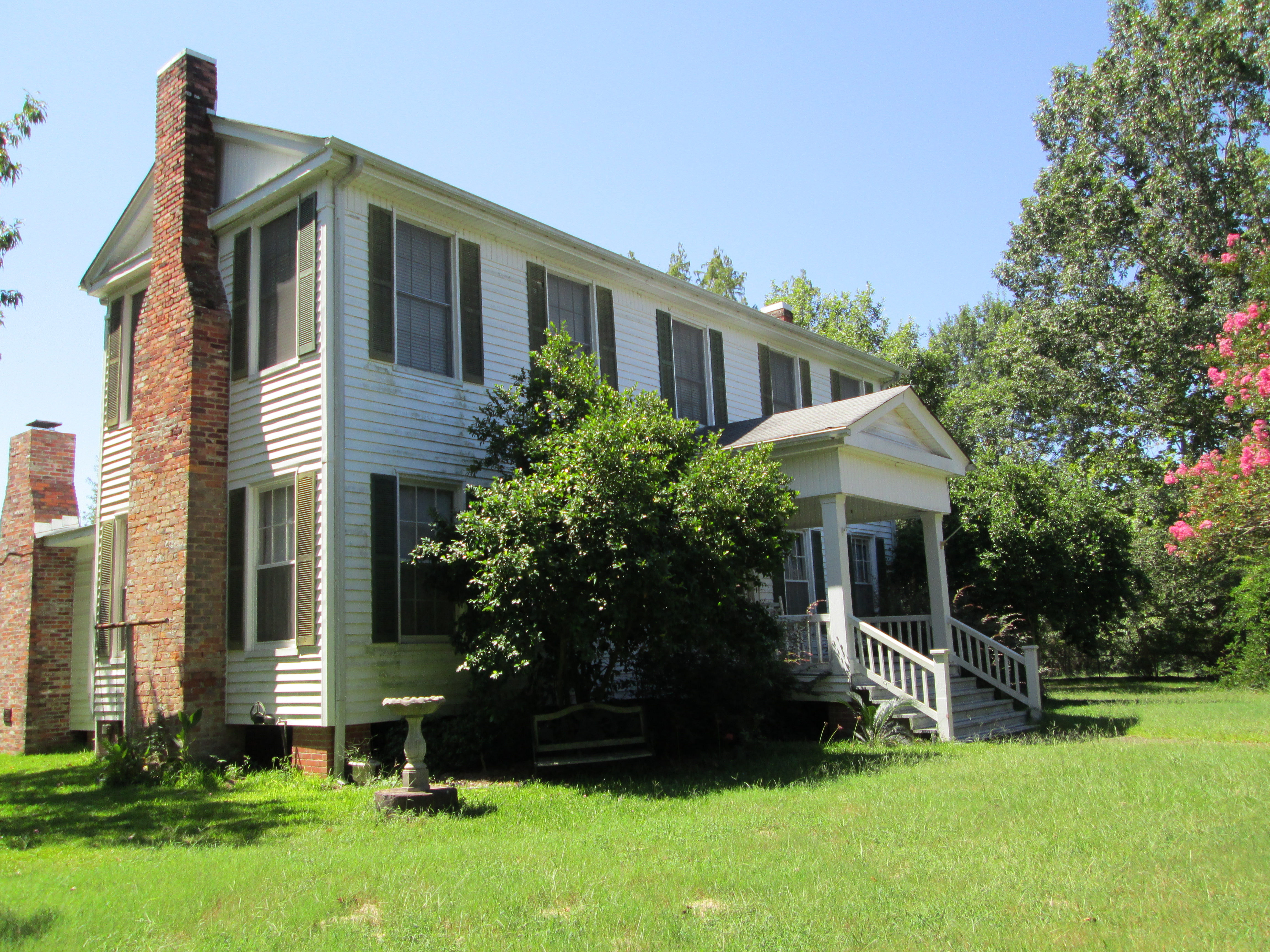 This is the plantation house on Oakland Plantation in Bossier Parish, Louisiana.